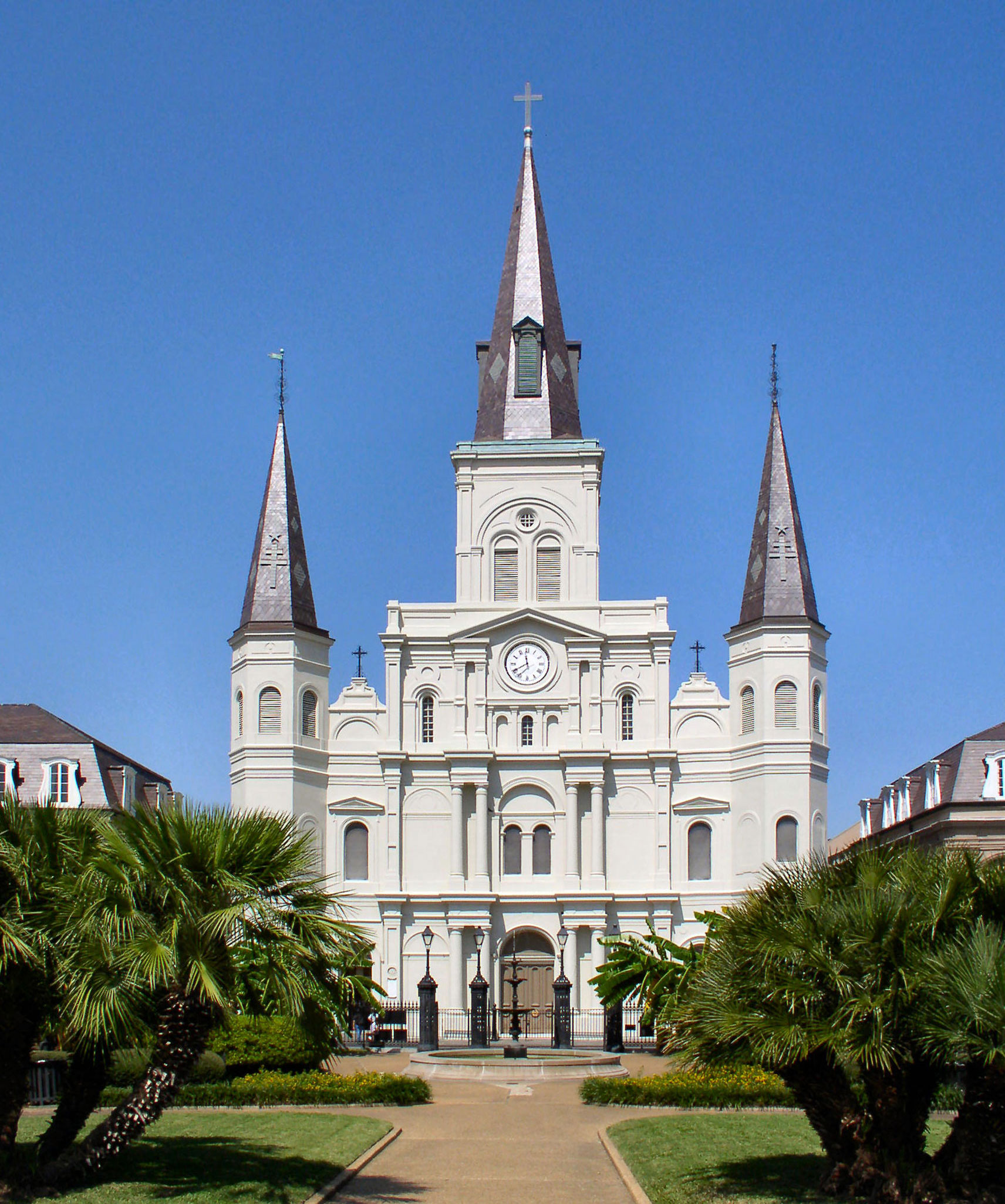 St. Louis Cathedral, New Orleans, by Rafal Konieczny, 2004